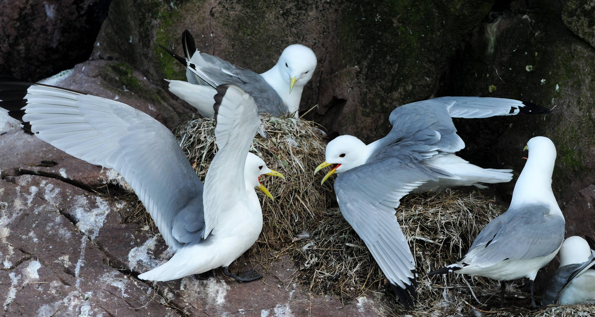 Black-legged kittiwakes squabble over territory.